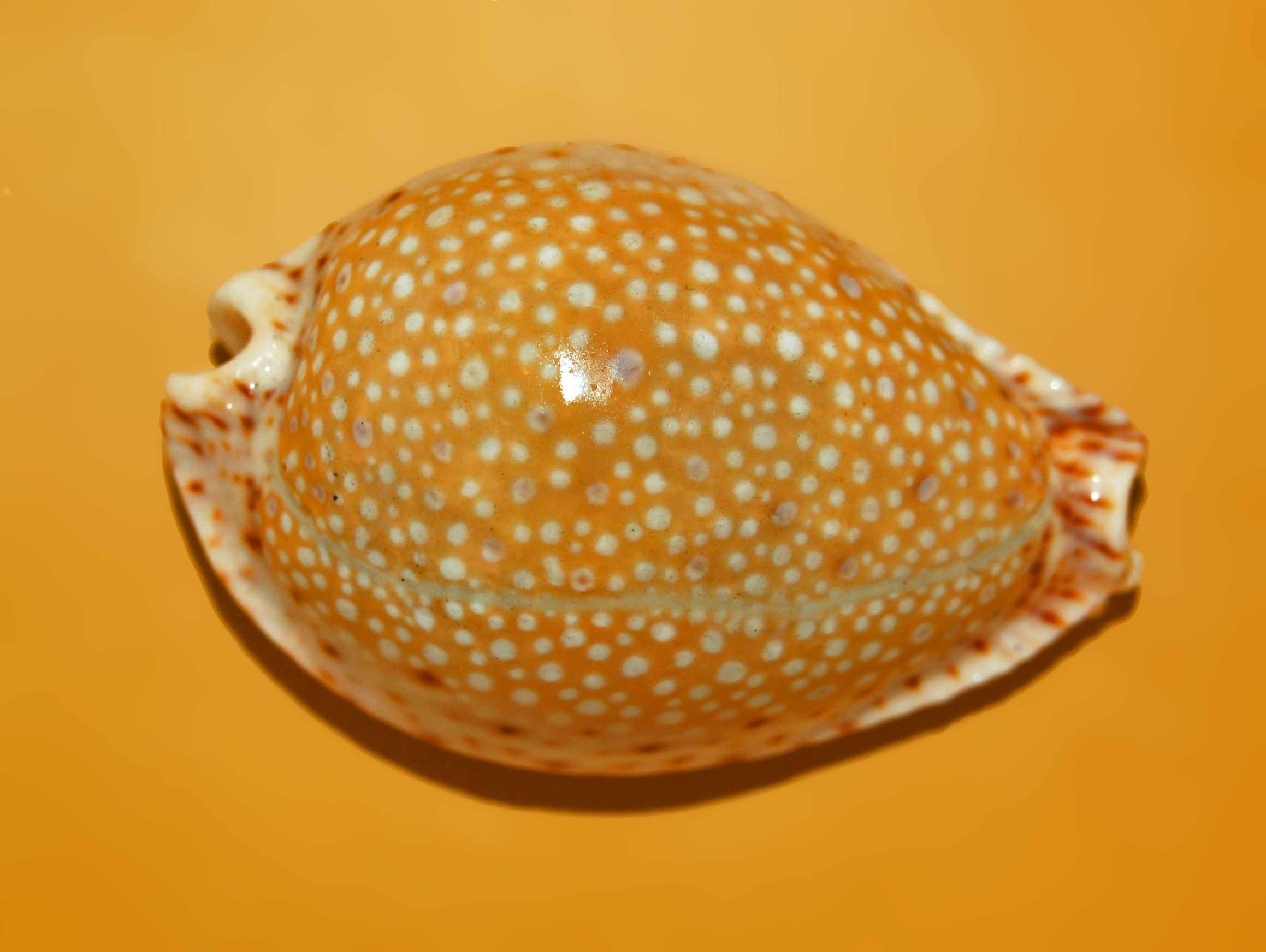 Naria lamarckii from Philippines